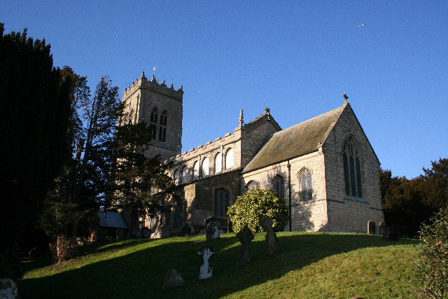 St.Peter & St.Paul's church, Burgh-le-Marsh, Lincs. Like so many churches in this part of Lincolnshire, Greenstone and almost entirely Perpendicular. There's a lovely blocked south porch of 1702 with a Dutch gable and a clock with the foreboding inscription of "watch and pray for ye know not when the time is"